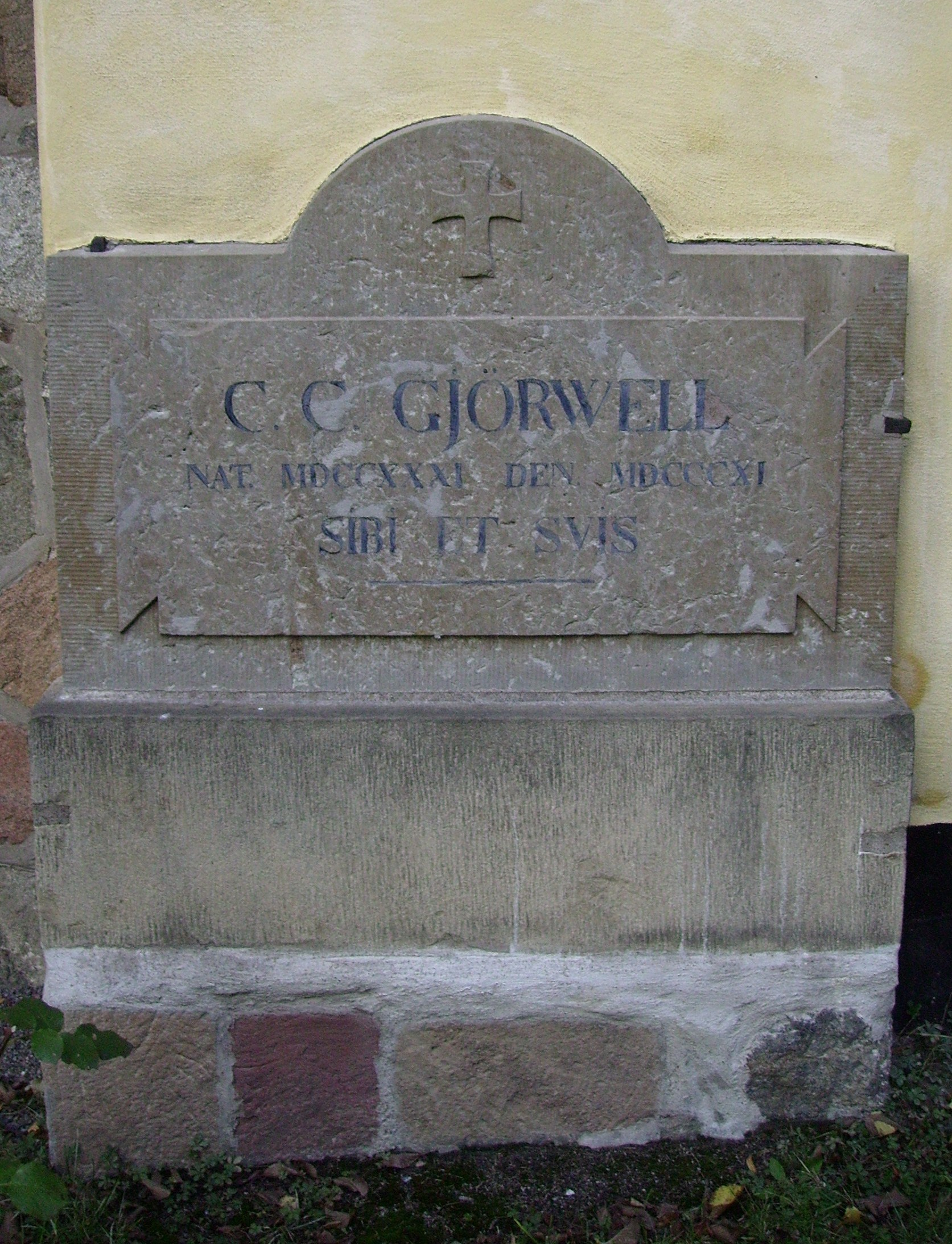 Picture of C.C. Gjörwell's grave at Solna kyrkogård